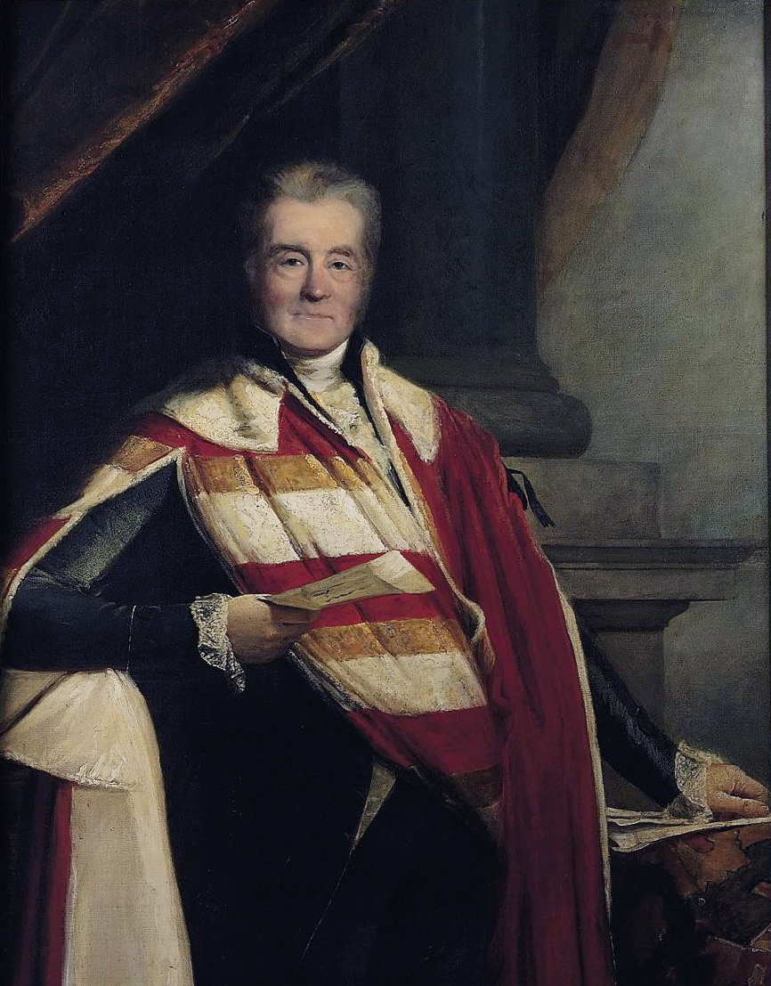 Portrait in peer's robes, his left hand on a document, a letter in his right